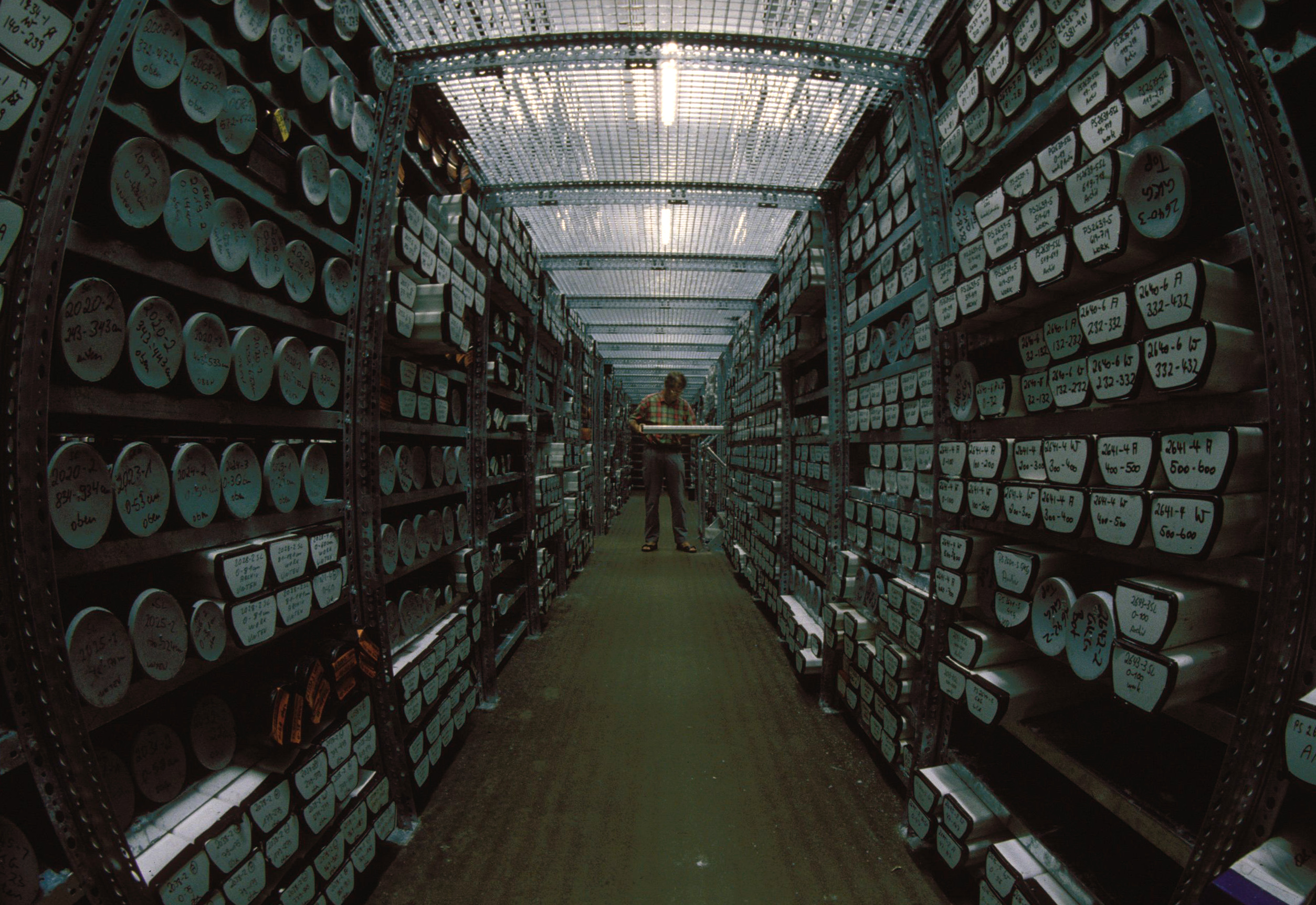 Geological core repository for sediment samples (POLARSTERN core repository, Alfred Wegener Institute for Polar and Marine Research, Bremerhaven)